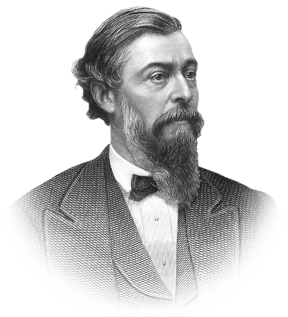 Thomas Clark Durant, M.D. (1820-1885), Vice President of the Union Pacific Railroad. From an engraving by Robert O'Brien based on a photograph by Matthew Brady. c 1865-70